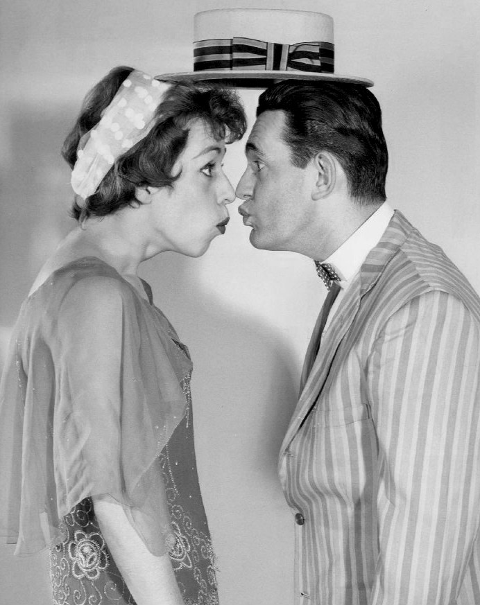 Publicity photo of Carol Burnett and Larry Blyden from the television show The Garry Moore Show.